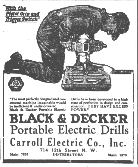 Black and Decker ad promoting the pistol grip and trigger switch for the drill